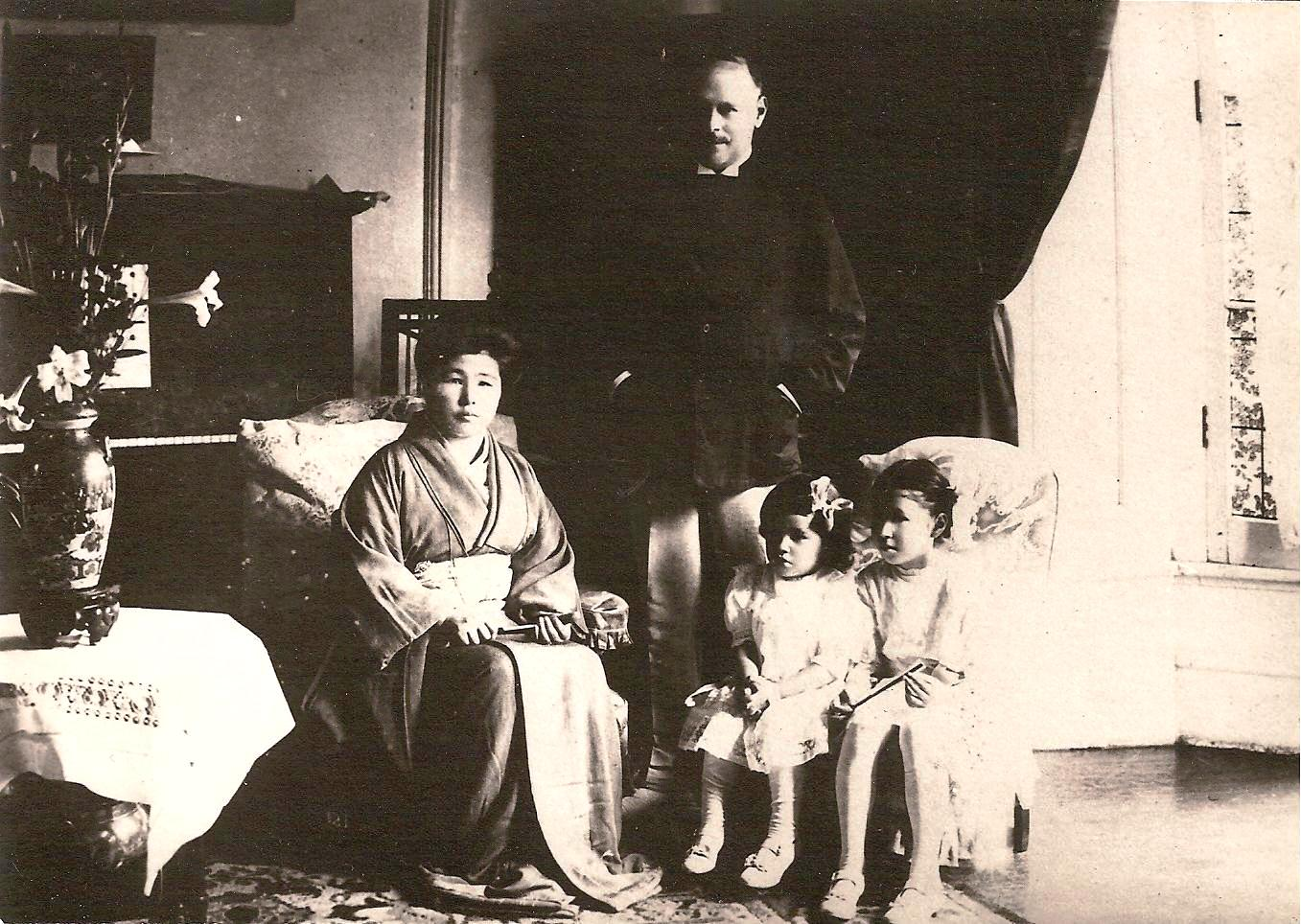 August Junker mit Familie in Tokyo 1912